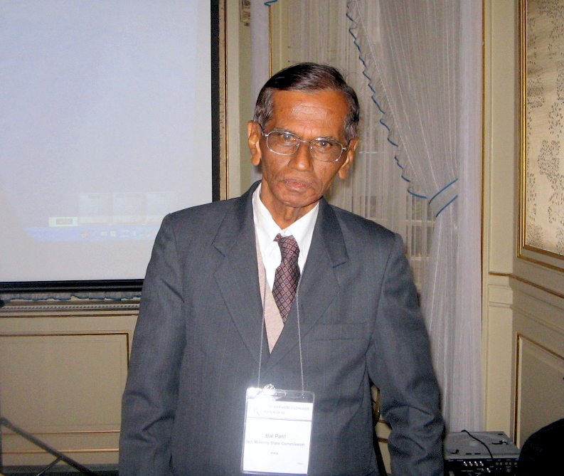 Mr. Bal Patil. Jain scholar and activist